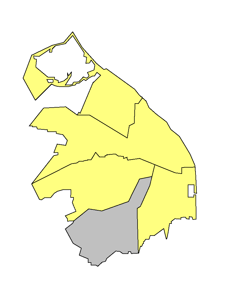 Localidad Metropolitana